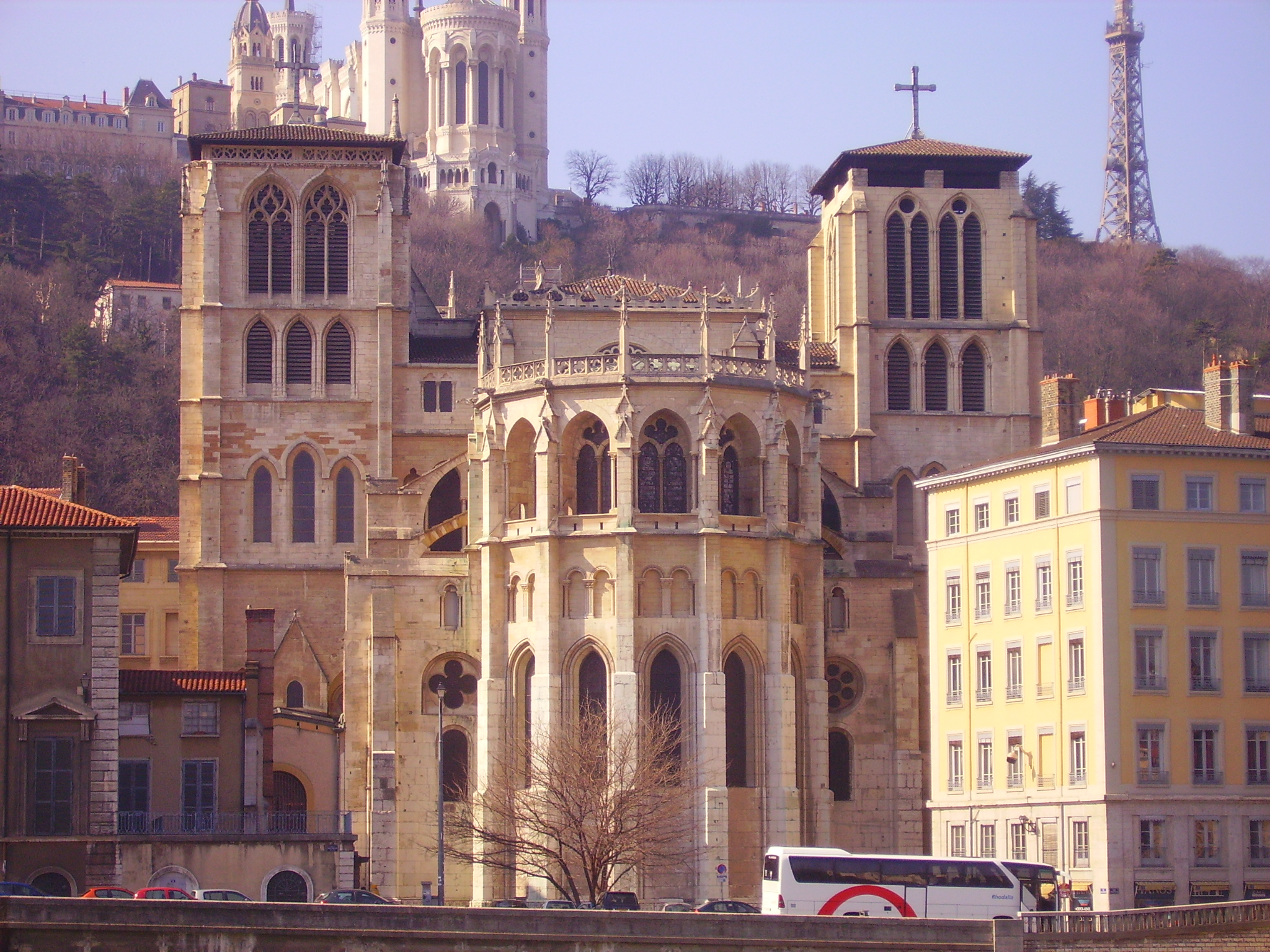 Choir of the Metropolitan Cathedral St. John the Baptist, Lyon